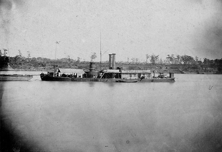 Removed caption read: Photo # NH 61472 USS Ozark, photographed in 1864-65 A cropped photograph of the USS Ozark, circa 1864-65. Original found at